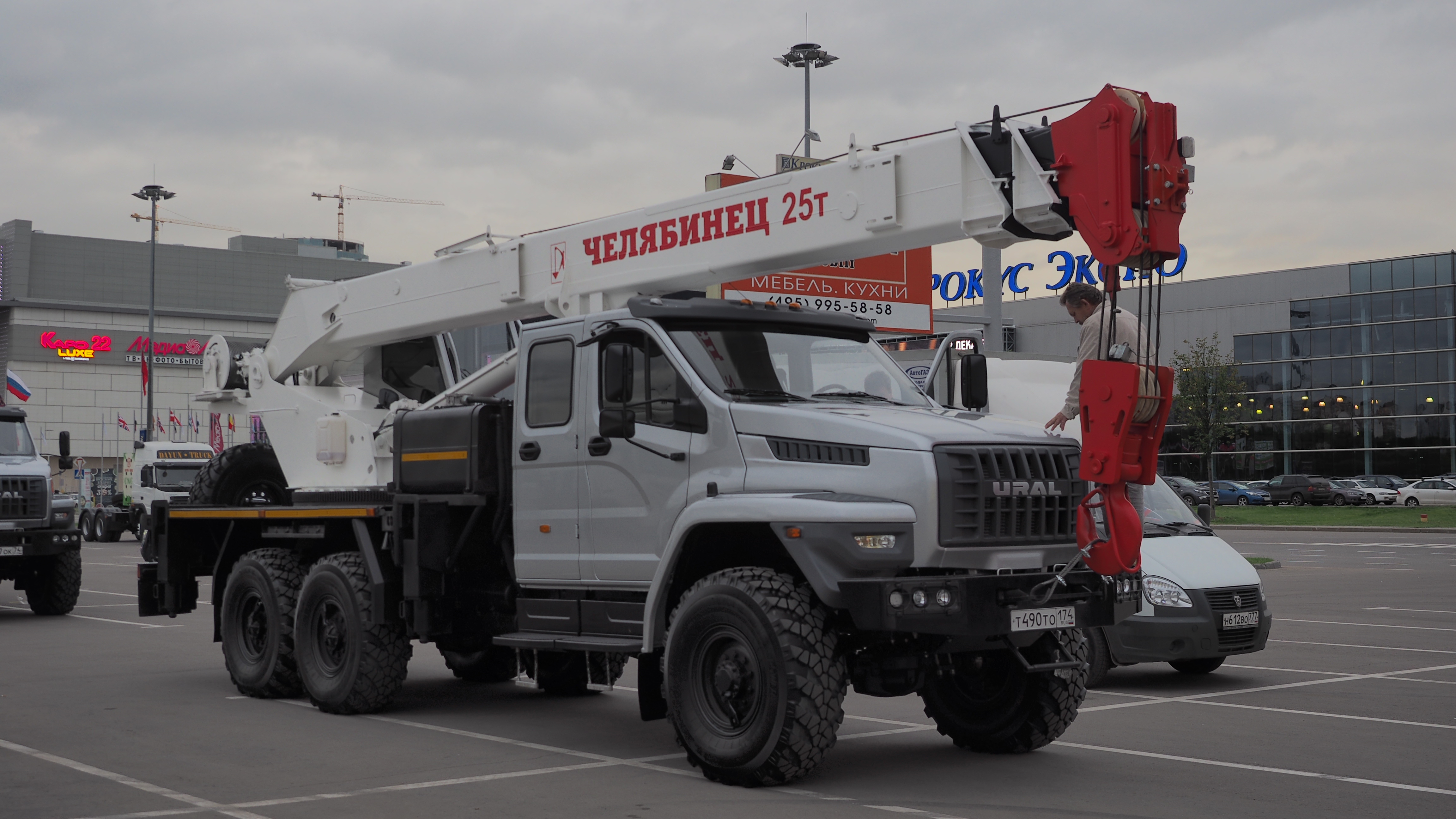 Ural Next mobile crane with double cab